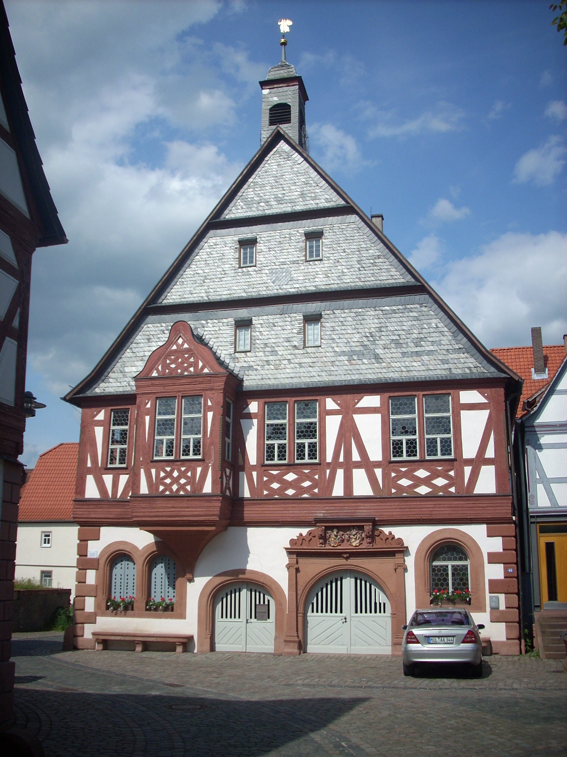 Wörth am Main (old town hall)